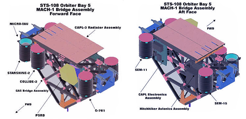 MACH-1 Pallet flown on STS-108